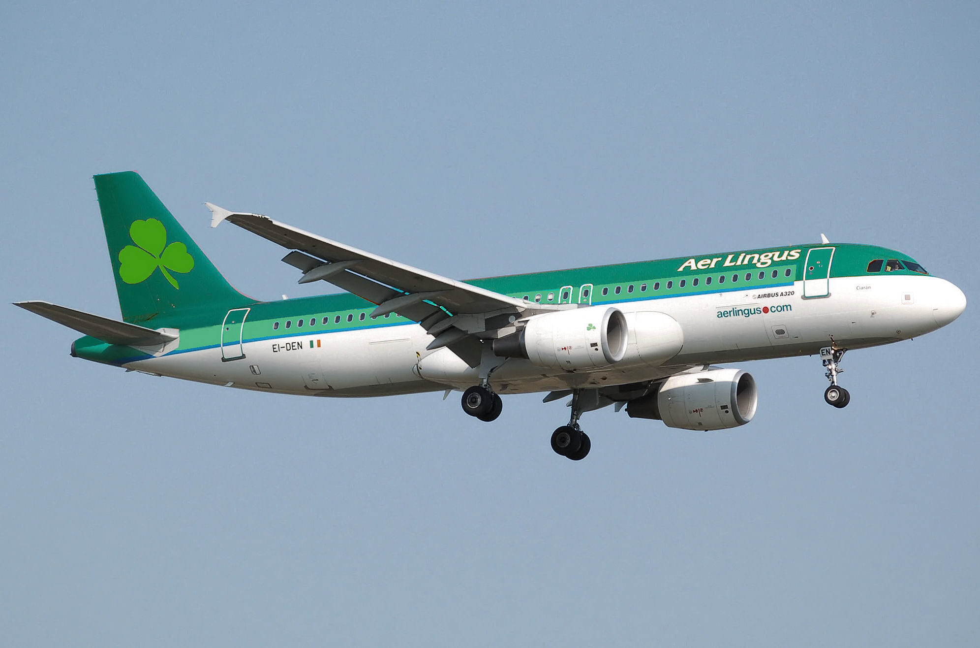 Aer Lingus Airbus A320-200 (EI-DEN, Saint Kieran) lands at London Heathrow Airport, England.